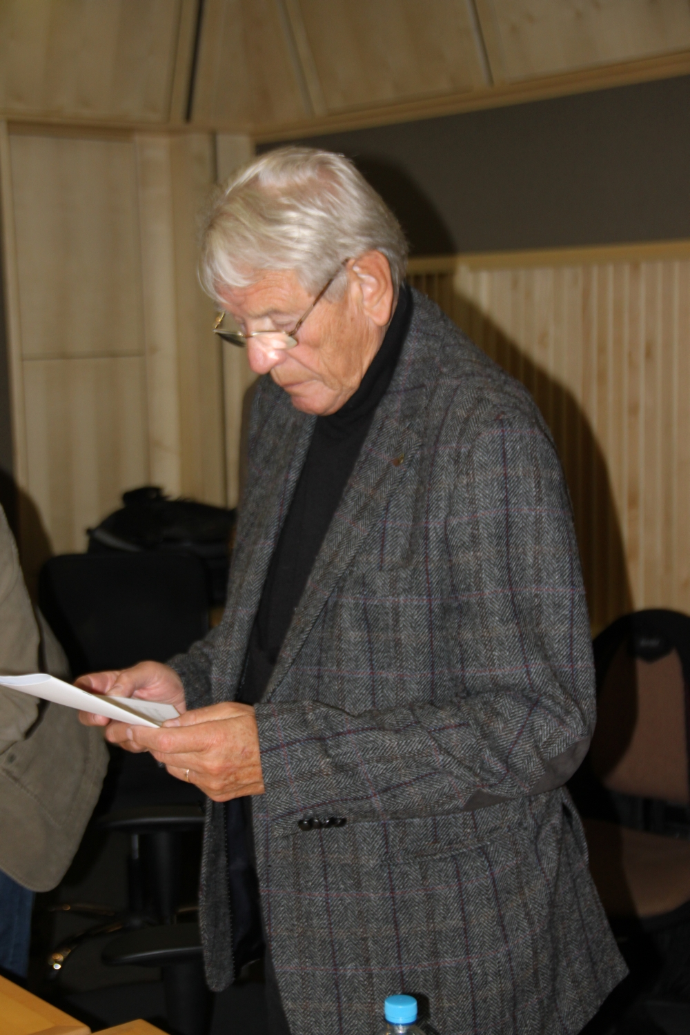 Vadim Petrov reading music notes